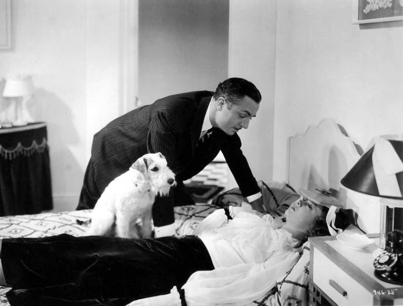 Promotional still for the 1934 film The Thin Man starring William Powell, Myrna Loy and Asta — part of a feature story titled "A Dog's Life in Hollywood" by J. B. Griswold. Skippy (Asta) is one of the dogs profiled.